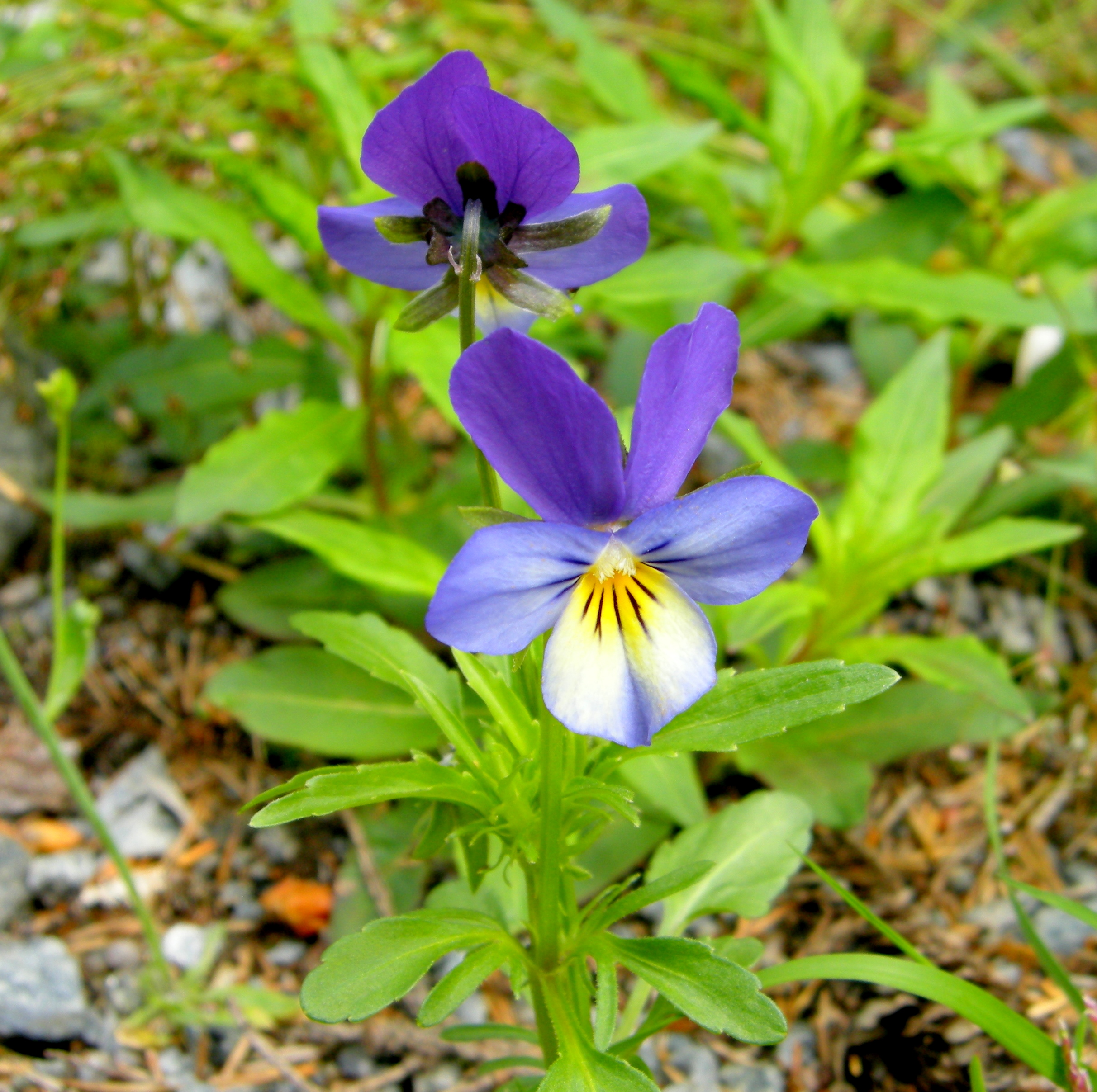 Viola tricolor, known as Heartsease. Larvik, Norway.